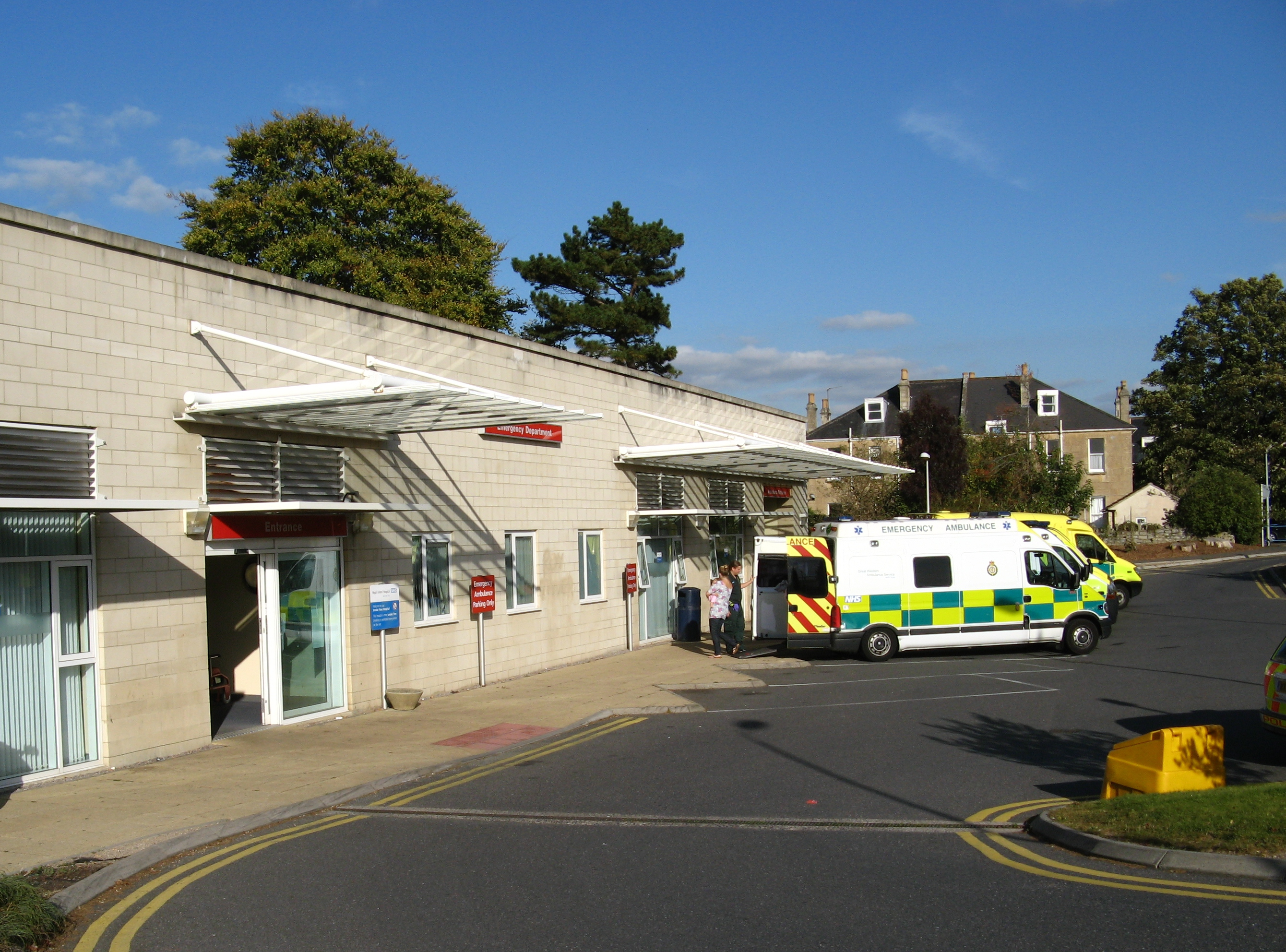 Royal United Hospital, Emergency Department (also known as Accident & Emergency), main entrance.